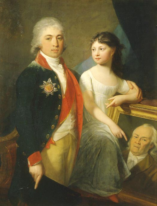 Portrait of the author and statesman Ivan M. Muravyev-Apostol (1765 - 1851) with Daughter